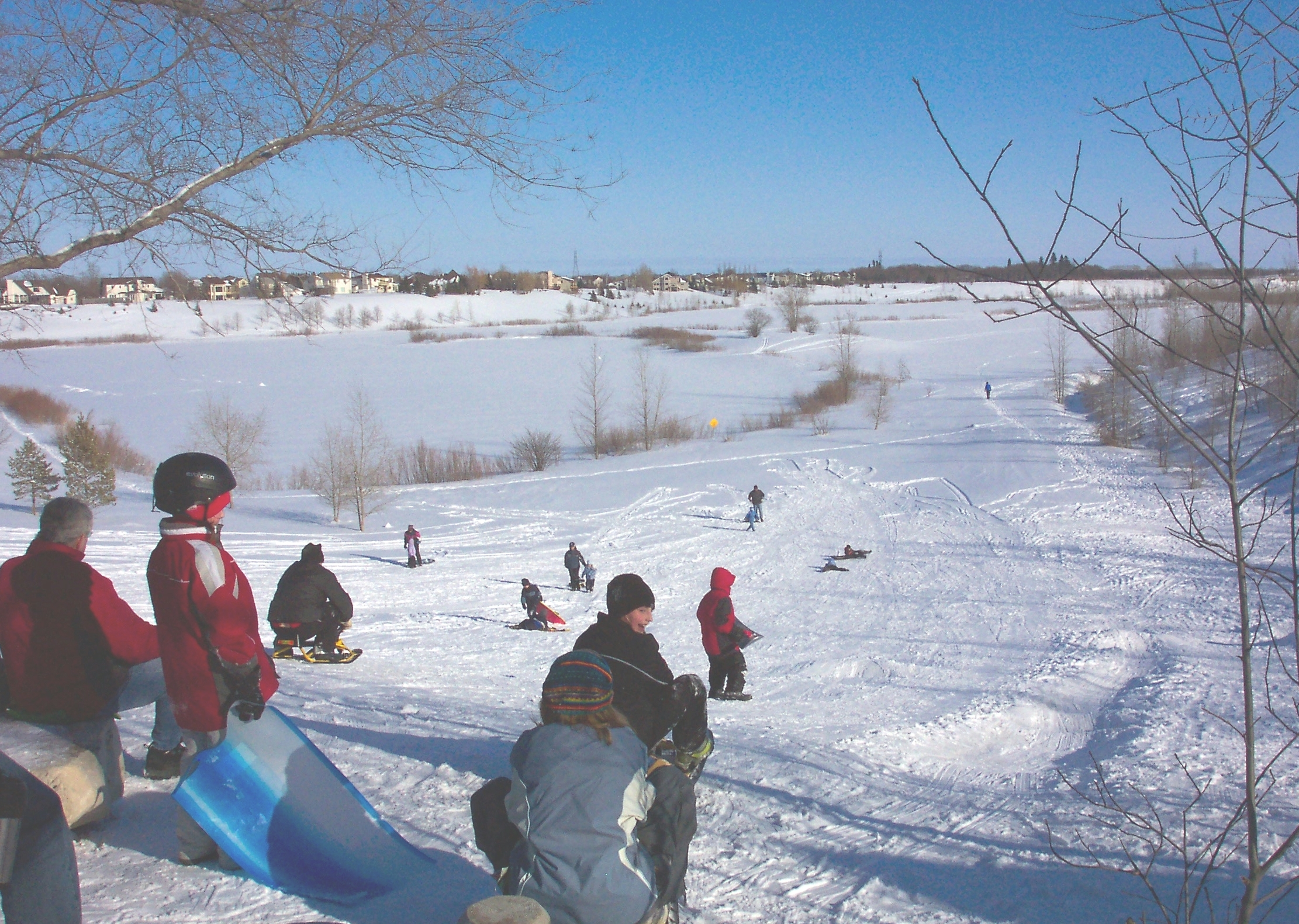 Families tobogganing at Birds Hill, East St. Paul Manitoba.